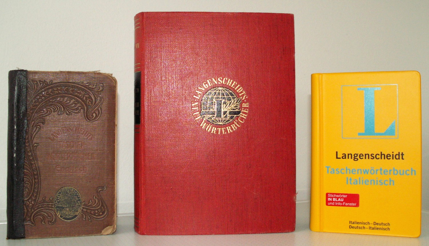 Contents 1 Summary 2 Licensing 2.1 File usage on other wikis 2.2 Related galleries Summary Fotograf: Späth Chr. Licensing